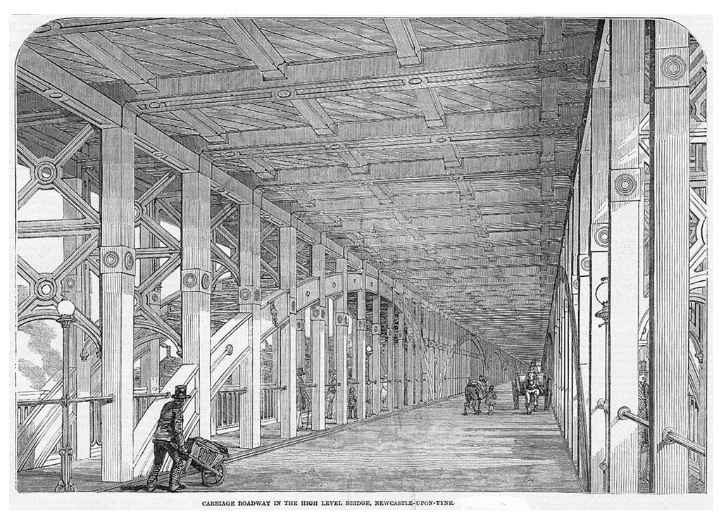 The carriageway level of the High Level Bridge, Newcastle, England, soon after its opening in 1849